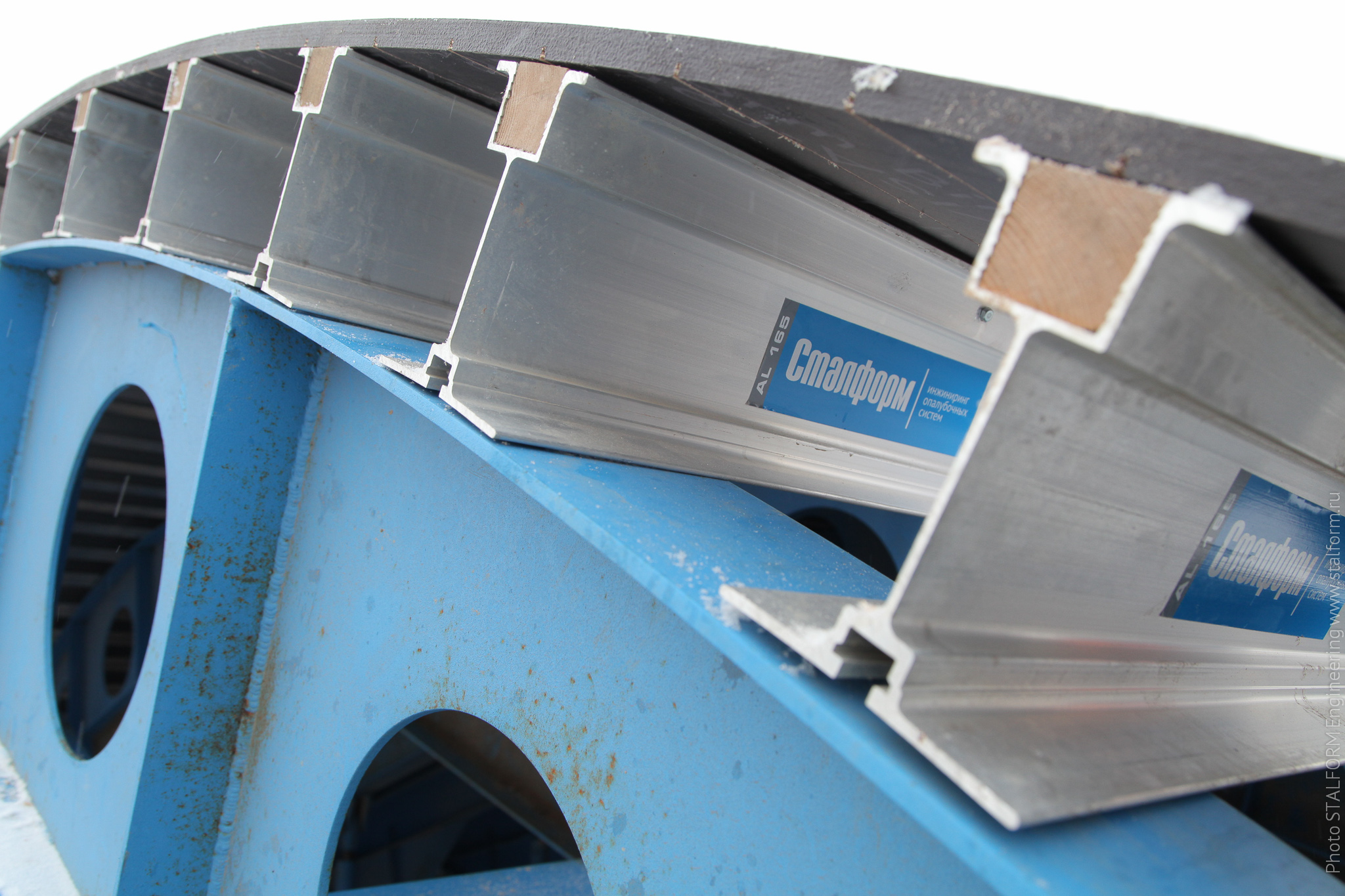 Formwork Engineering System of steel, aluminum beams and plywood for the Moscow Metro Station Lesoparkovaya. Russia, Moscow, 2013. info